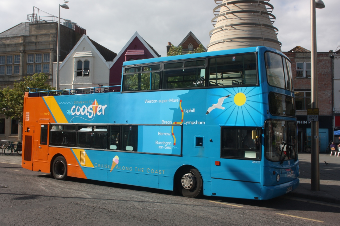 The Silica in Regent Street, Weston-super-Mare, is the starting point for the 'Somerset Coaster', First West of England's route 20. 2017 has seen open top buses on the route for the first time in many years. This is a Volvo-powered ALX400, fleet number 32002 which is currently registered RKZ4760 but was originally W802PAE.